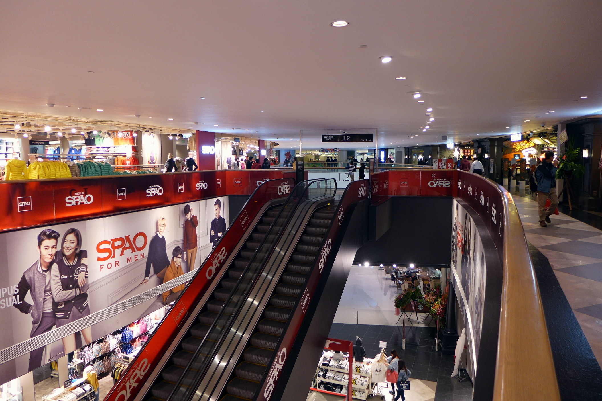 Discovery Park Level 2 SPAO